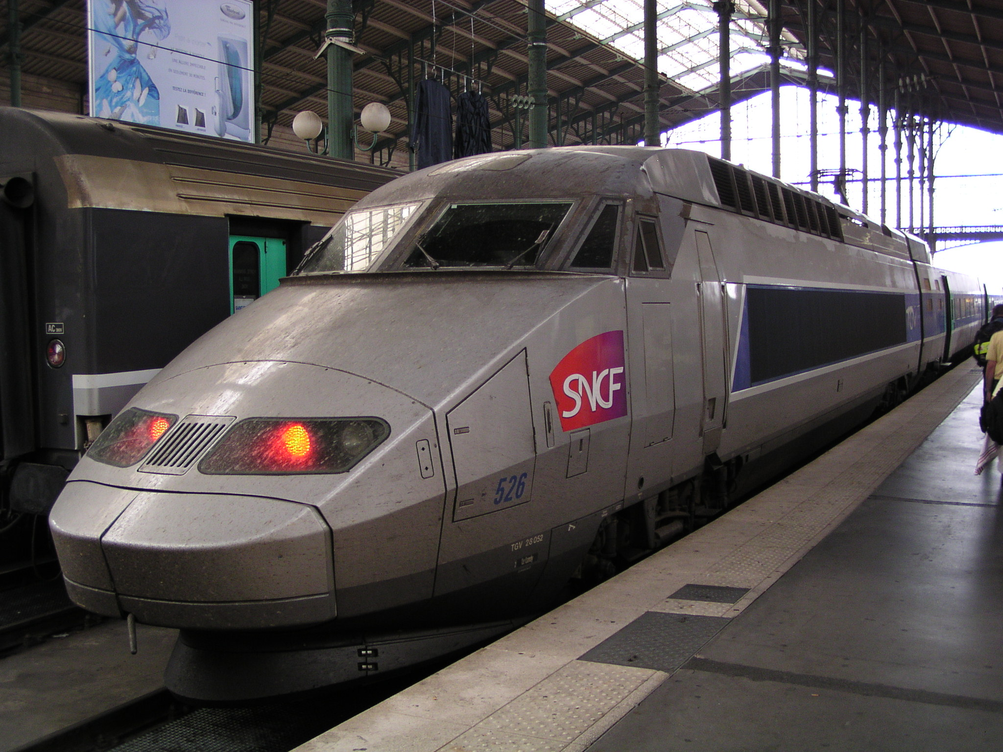 SNCF TGV-R 526 at Paris Gare du Nord on 5th September 2005. Image by Phil Scott (Our Phellap)